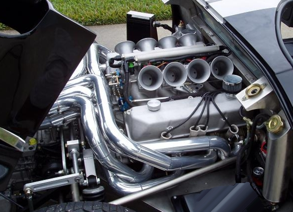 Ford FE Tunnelport installation